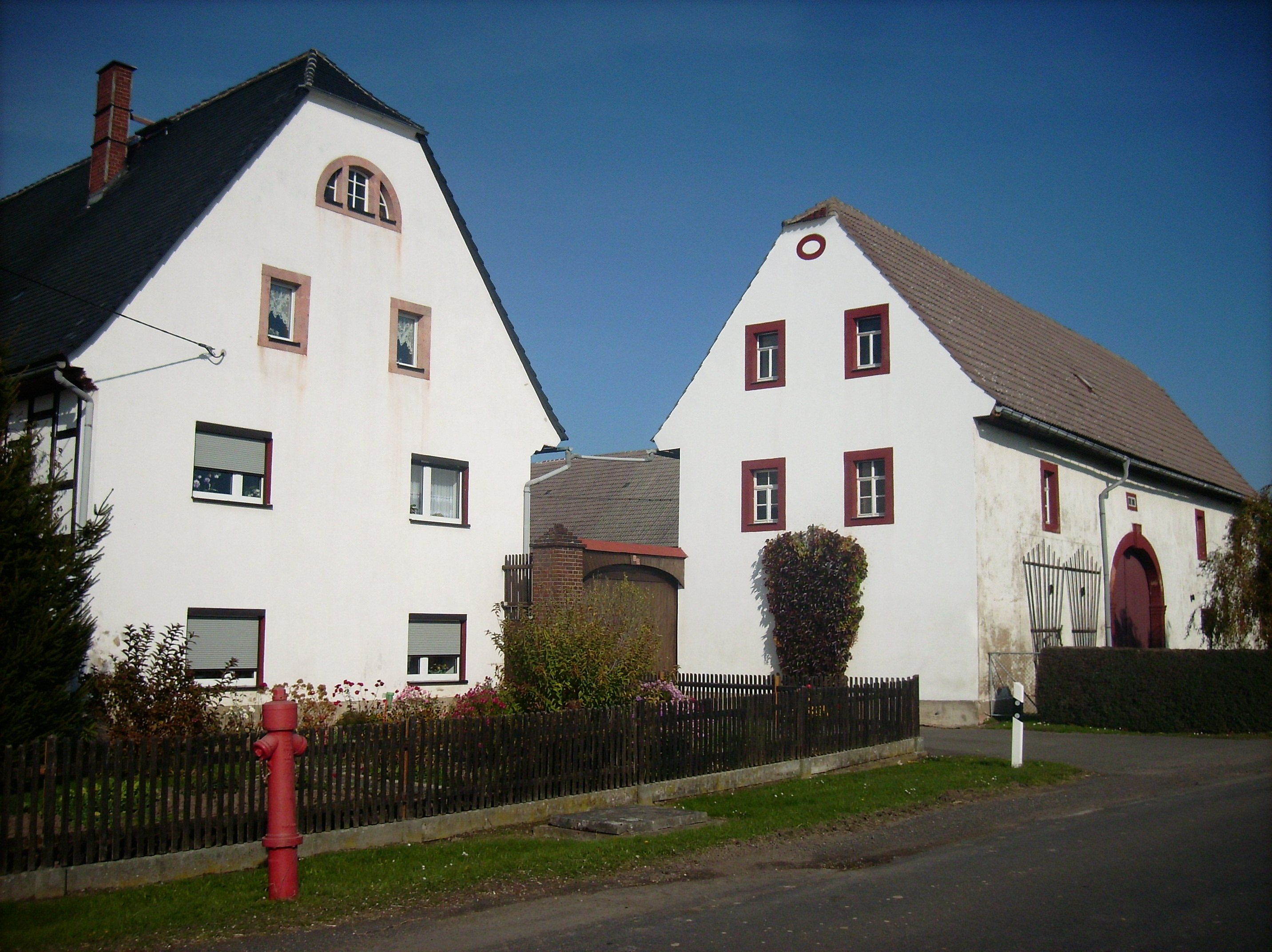 Farmstead in Meusdorf (Kohren-Sahlis, Leipzig district, Saxony)